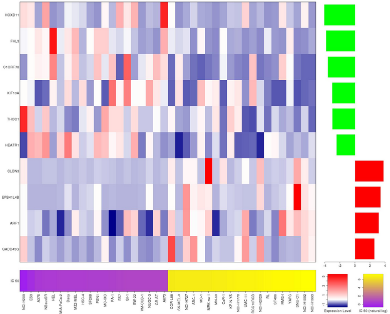 Elastic net plot